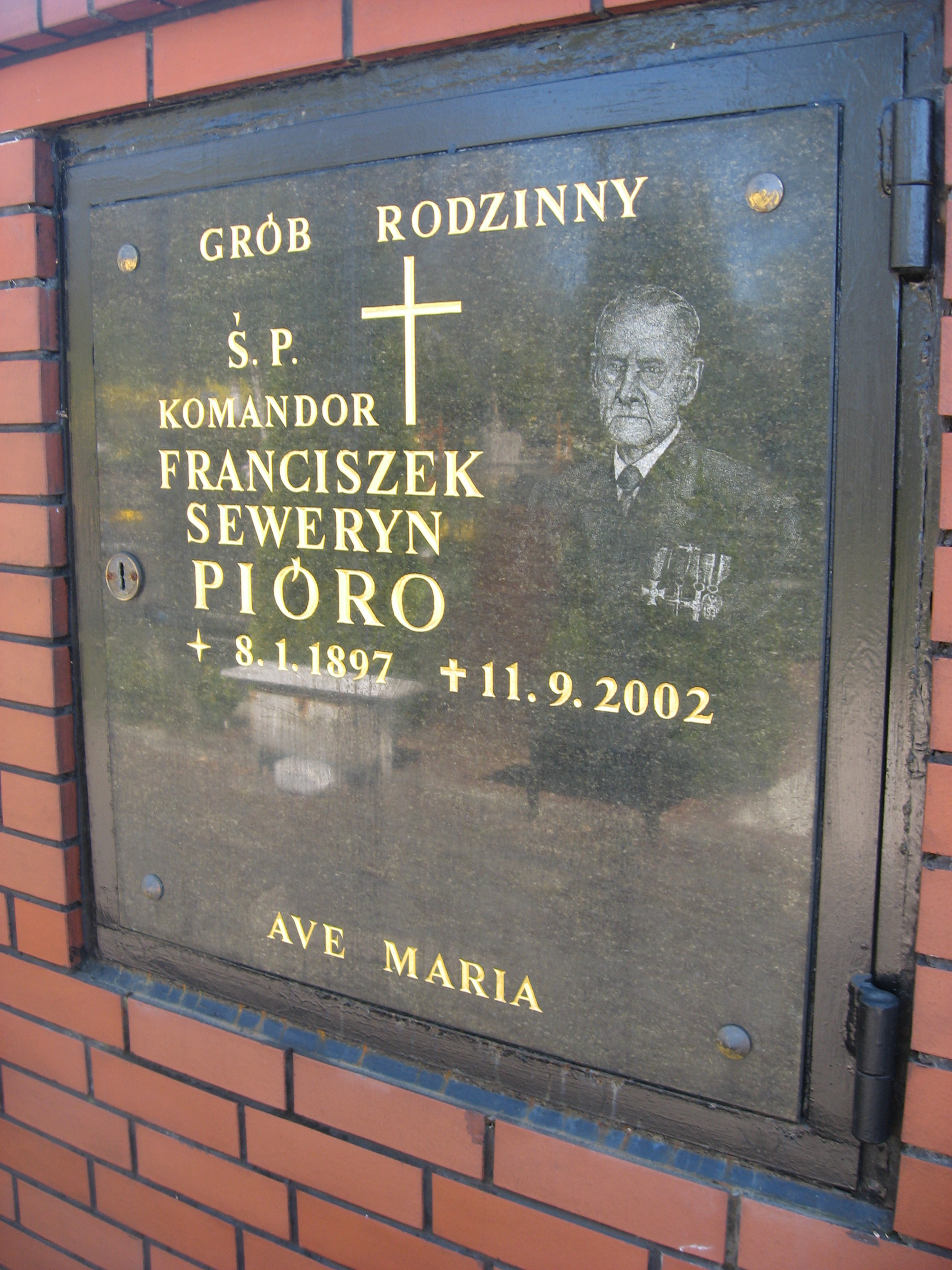 Polish Navy Cemetery in Gdynia Oksywie - tombstone of captain Franciszek Seweryn Pióro